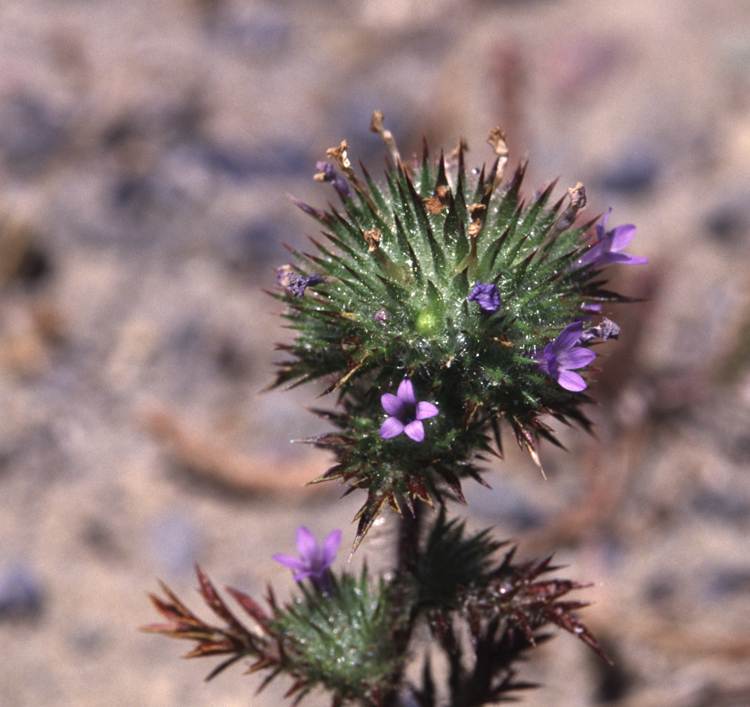 Navarretia squarrosa at Humboldt Bay National Wildlife Refuge Complex, California, USA